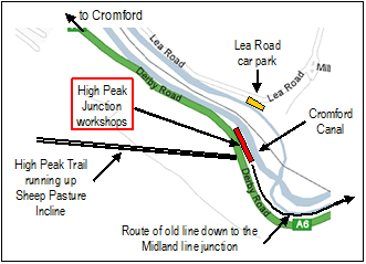 A simplified map of High Peak Junction, near Cromford, Derbyshire.